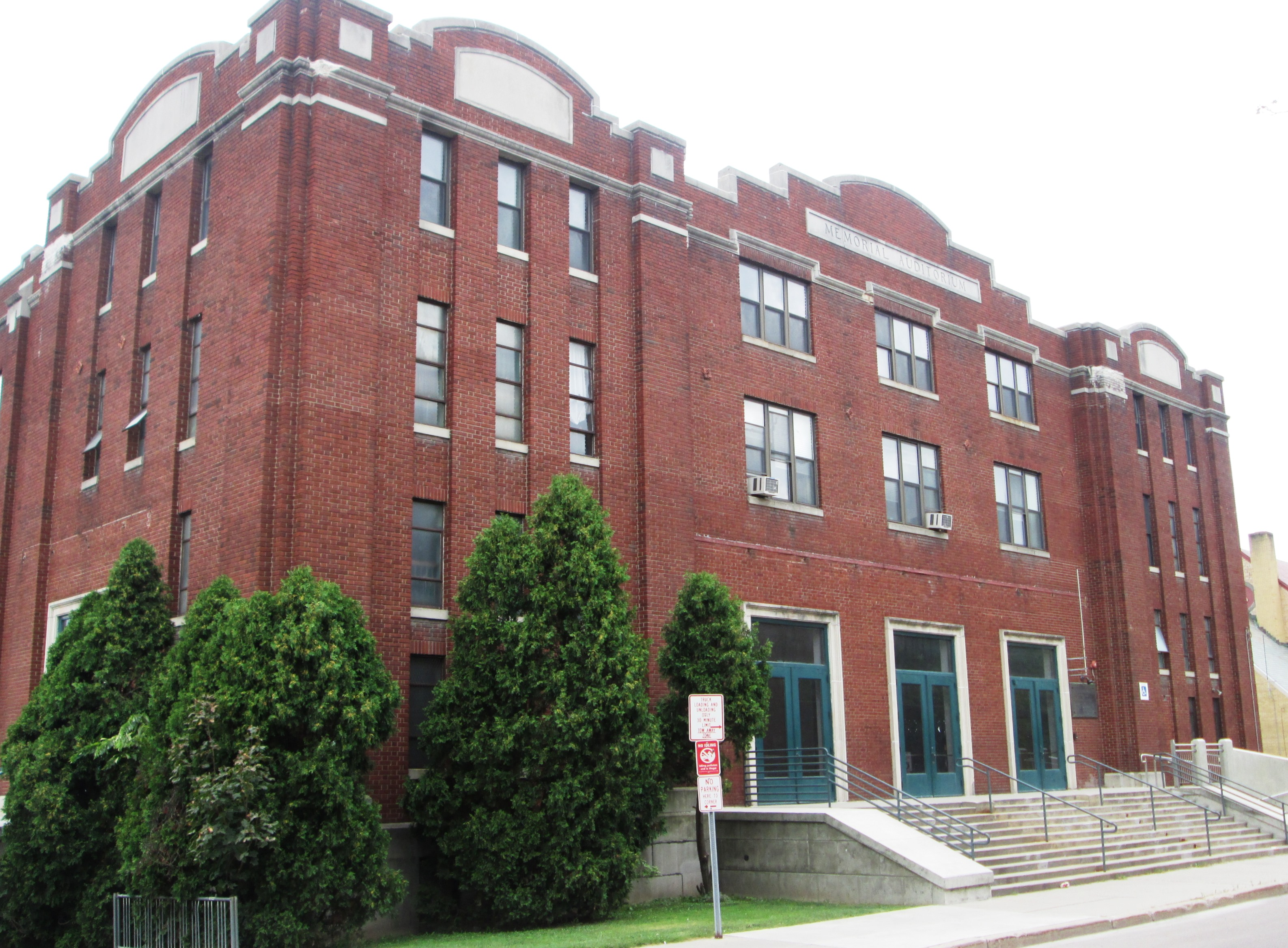 Memorial Auditorium at 250 Main Street at the corner of S. Union Street in Burlington, Vermont, was built in 1927 and was built and designed by Frank Lyman Austin. It is part of the Main Street-College Street Historic District. (Source: [1])